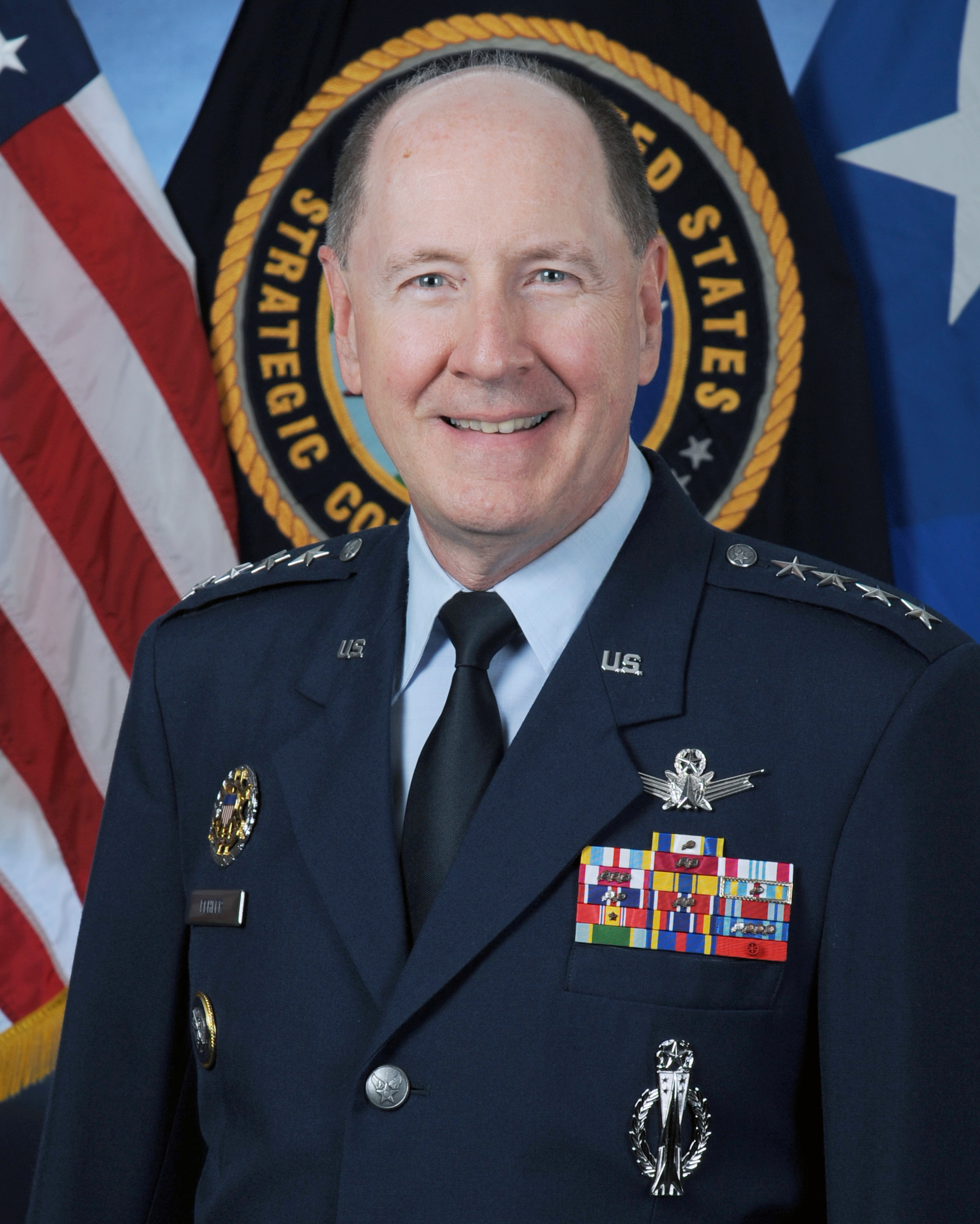 Official photo of General Kehler